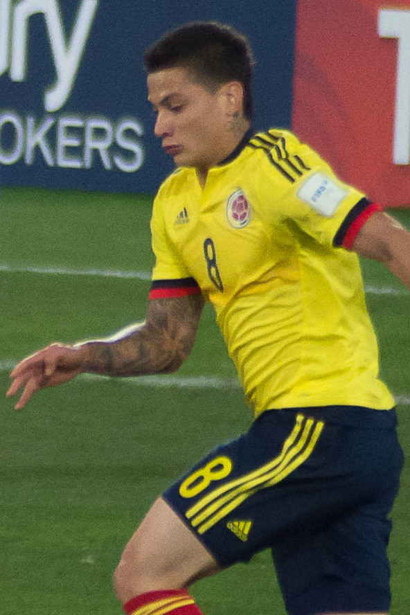 USA-Columbia, FIFA U20 World Cup